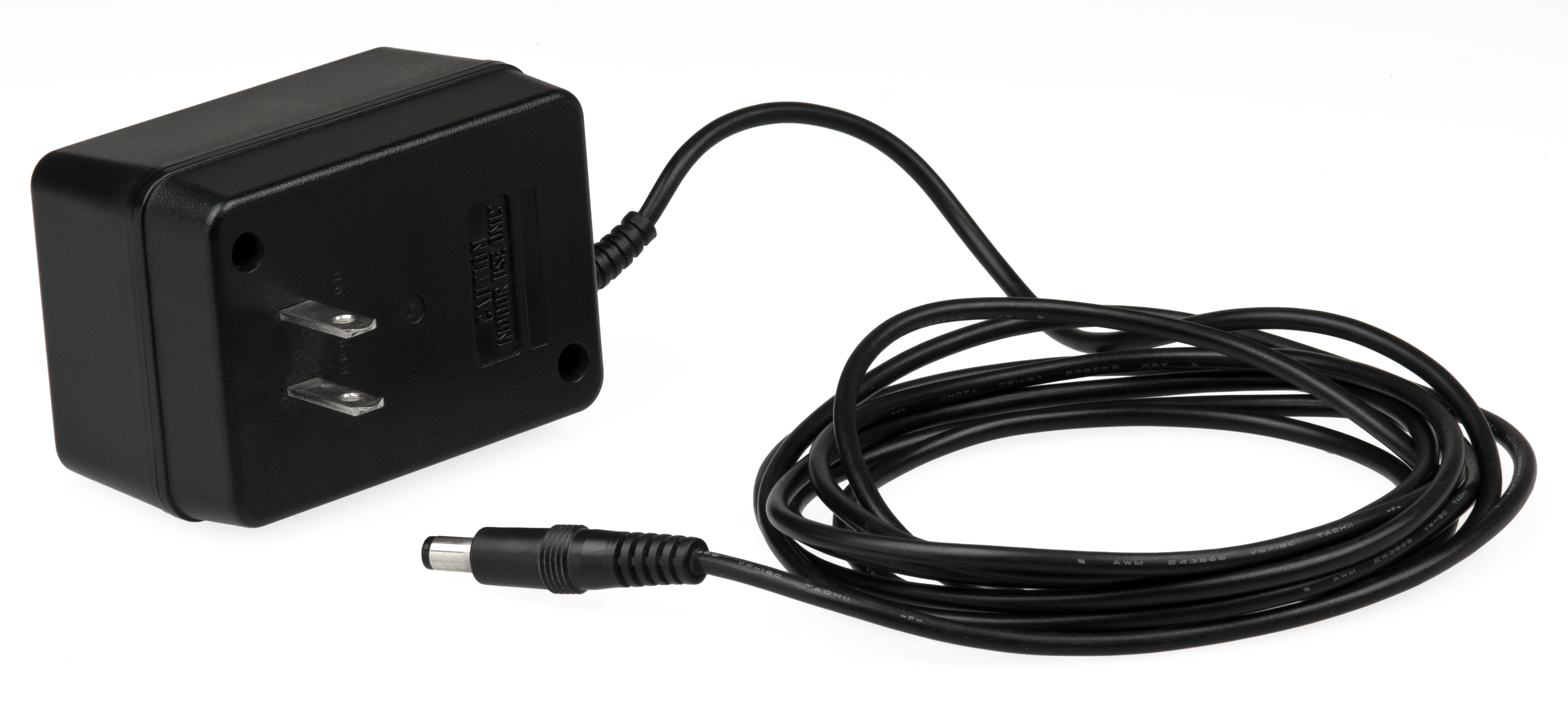 A "wall wart" AC adapter. This is specifically an AC adapter to a Nintendo video game console.